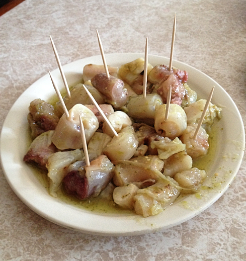 Sliced and sauteed bull penis is served as an appetizer in Oaxaca, Mexico.